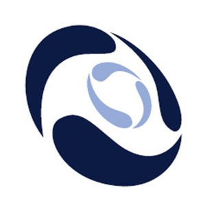 Logo of the EBS Symposium